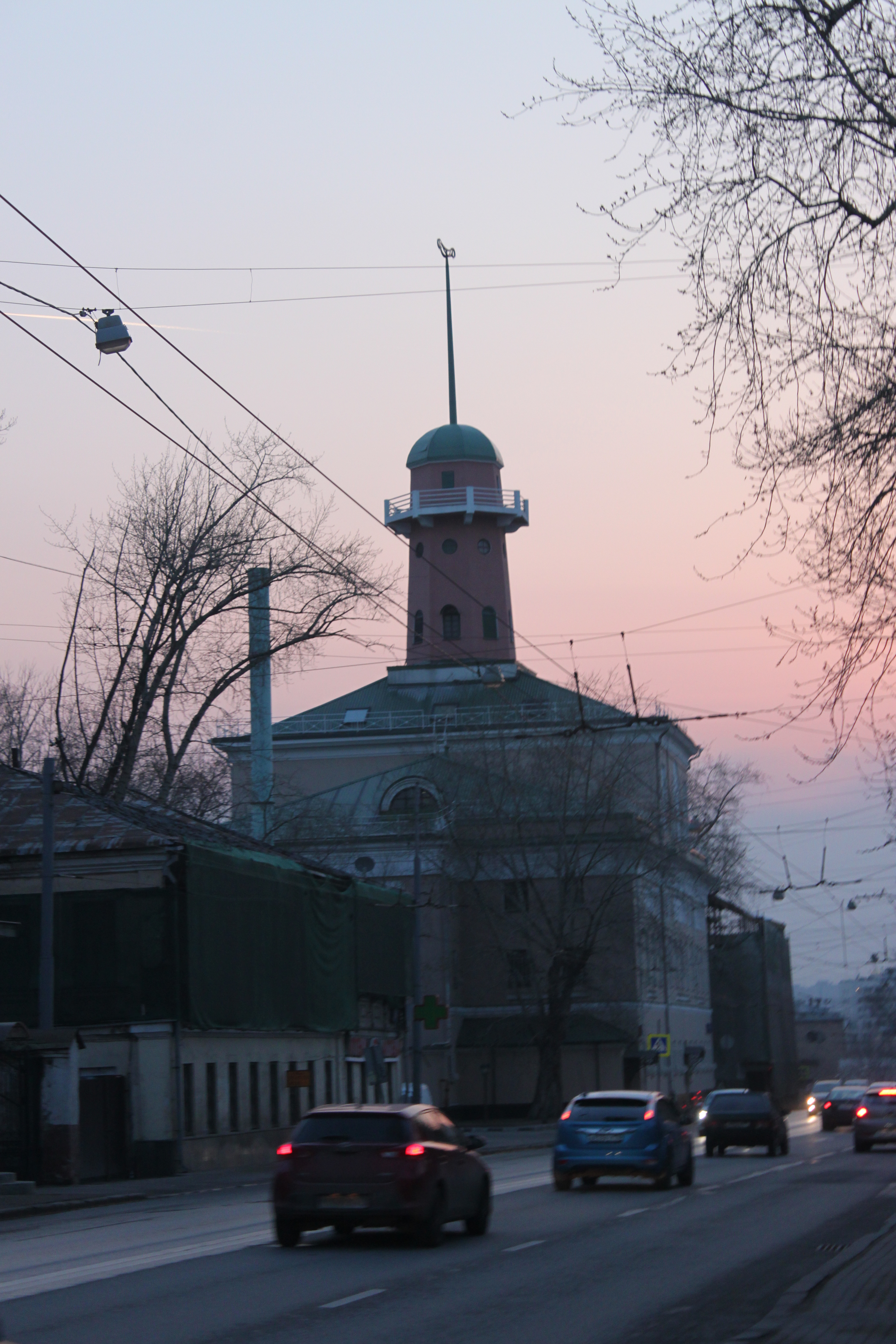 Nikoloyamskaya street.